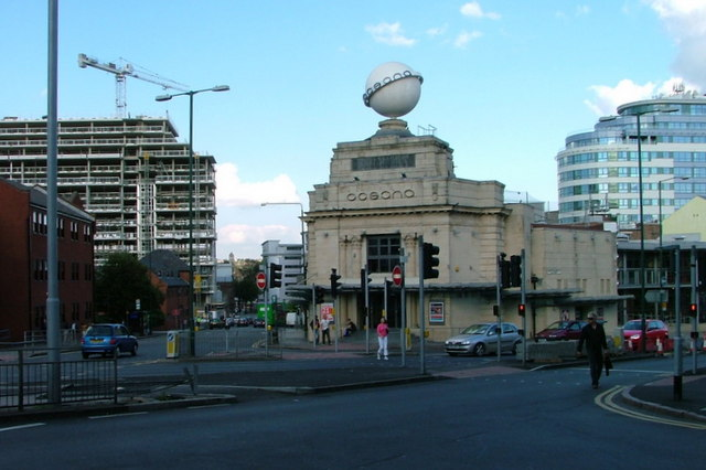 Oceana (Ex Palais de Danse) For a £7 million refurbishment the owners probably felt justified in changing the name of this local landmark which first opened its doors in 1925.